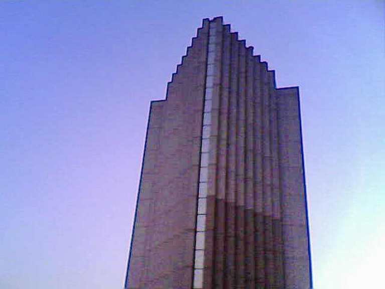 BRD Tower (side view).